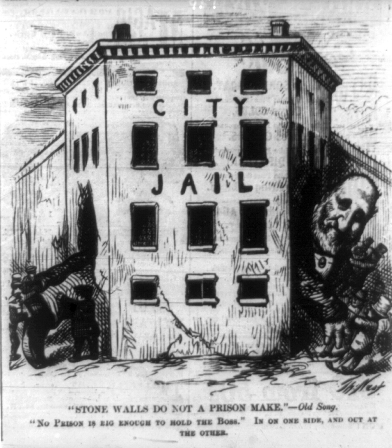 Political cartoon showing head of "Boss" Tweed sticking out of jail wall and his feet out another wall. Caption reads: "Stone Walls Do Not a Prison Make" – Old Song. "No prison is big enough to hold the Boss." In on one side and out at the other. Illus. in: Harper's Weekly, 1872 Jan. 6, p. 13. More information